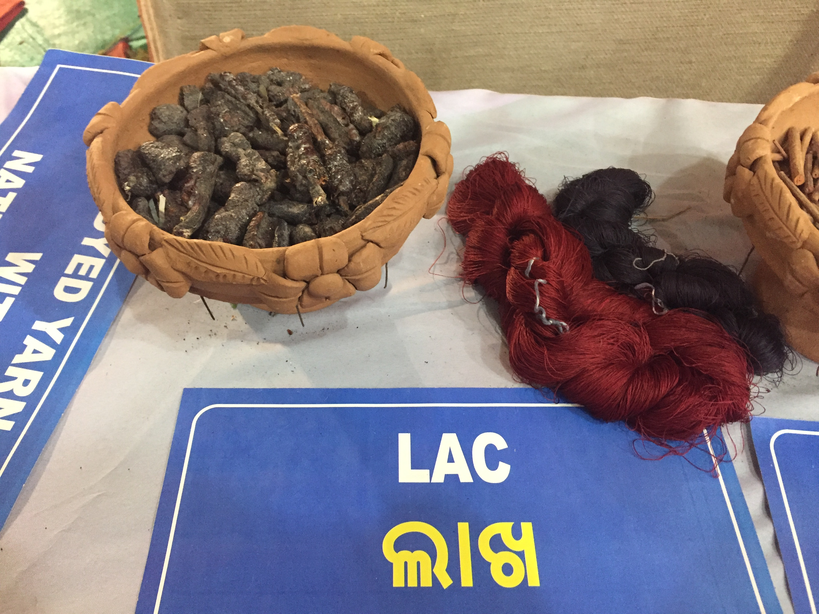 Using natural dyes to color the yarn of Tasar silk.